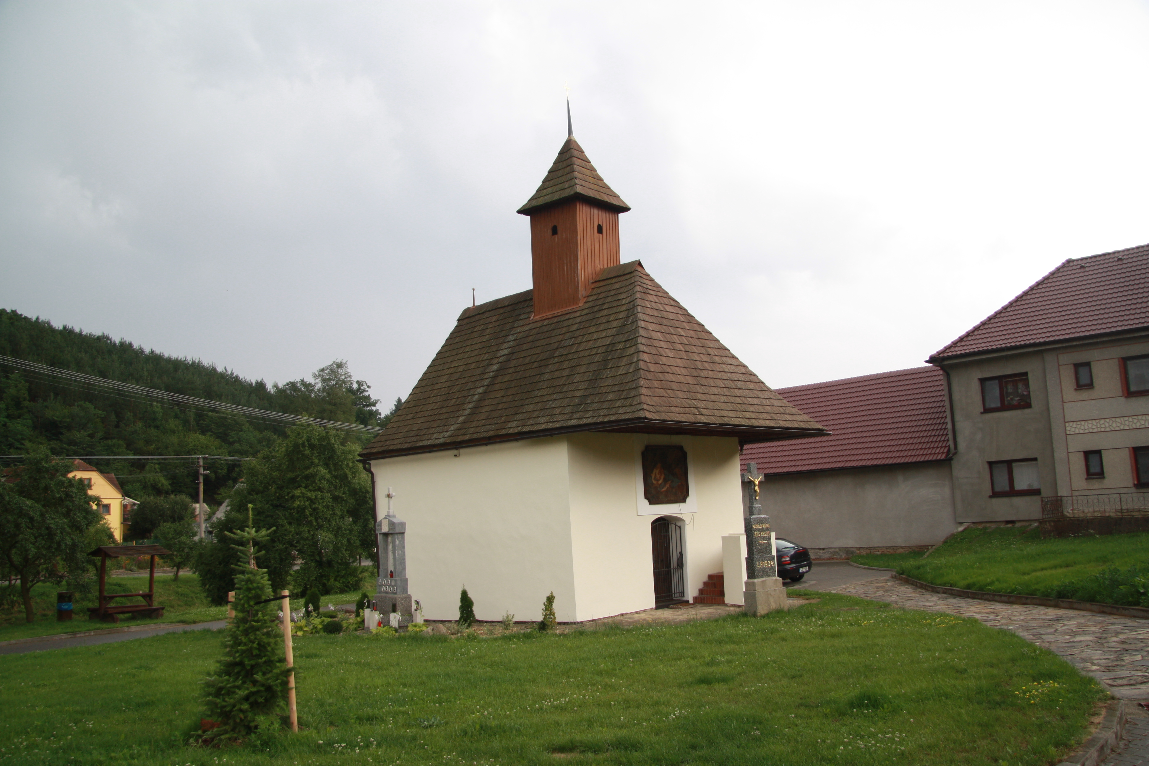 Chapel of Saint Mary Magdalene in Jasenice, Třebíč District.